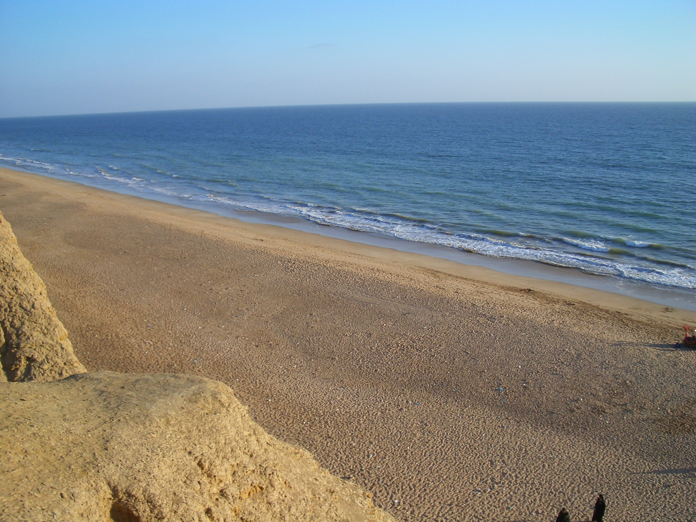 Cap Mount